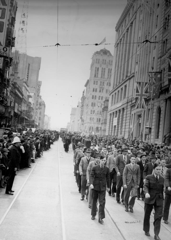 R.A.A.F. recruits marching along Queen Street, Brisbane, during World War II. R.A.A.F. recruits marching through the city before entraining for the South. R.A.A.F. ground staff. 8 August 1940. (Description supplied with photograph). Buildings on the right include the General Post Office (with clock in front) and the National Mutual building. The Courier-mail building is on the left side of Queen Street.